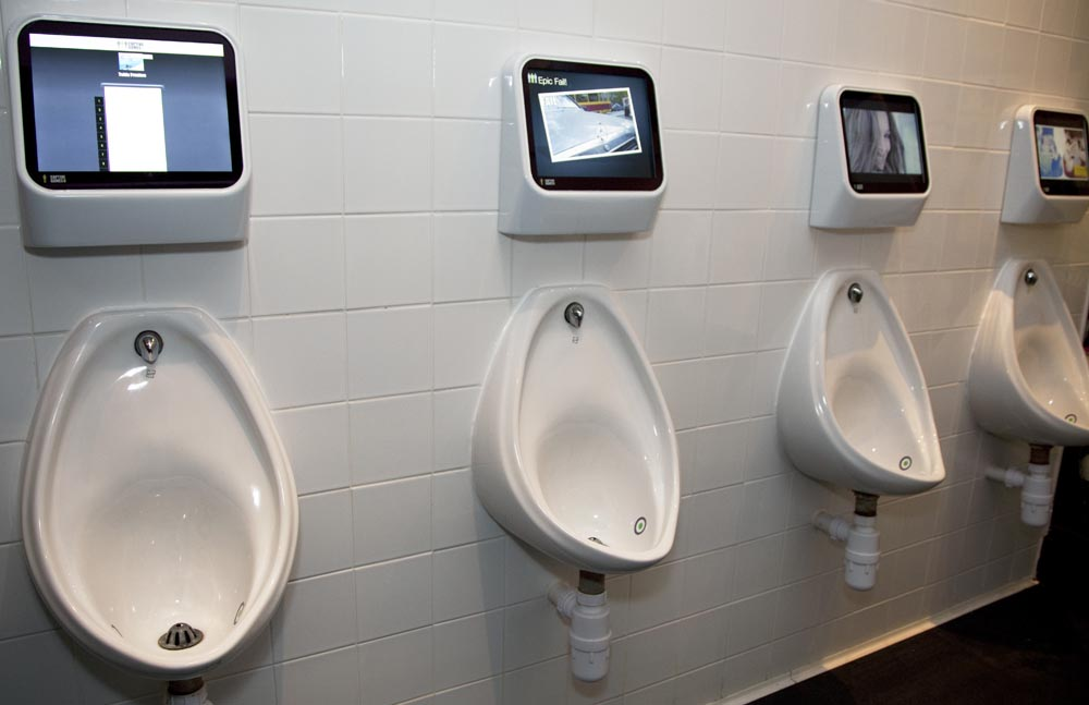 This photograph displays an installation of four Captive Media Ltd units in the men's urinals at The Exhibit Bar in Balham, London.